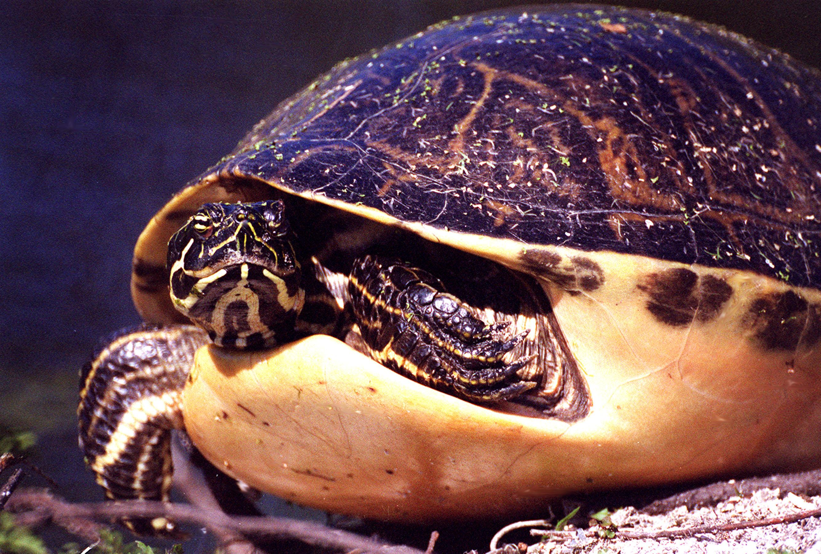 A Florida Redbelly Turtle casts a suspicious look as he is being photographed on the grounds of Kennedy Space Center. The Redbelly turtle inhabits ponds, lakes, sloughs, marshes and mangrove-bordered creeks, in a range that encompasses Florida from the southern tip north to the Apalachicola area of the panhandle. Active year-round, it is often seen basking on logs or floating mats of vegetation. Adults prefer a diet of aquatic plants. Florida Redbelly Turtle - Pseudemys nelsoni